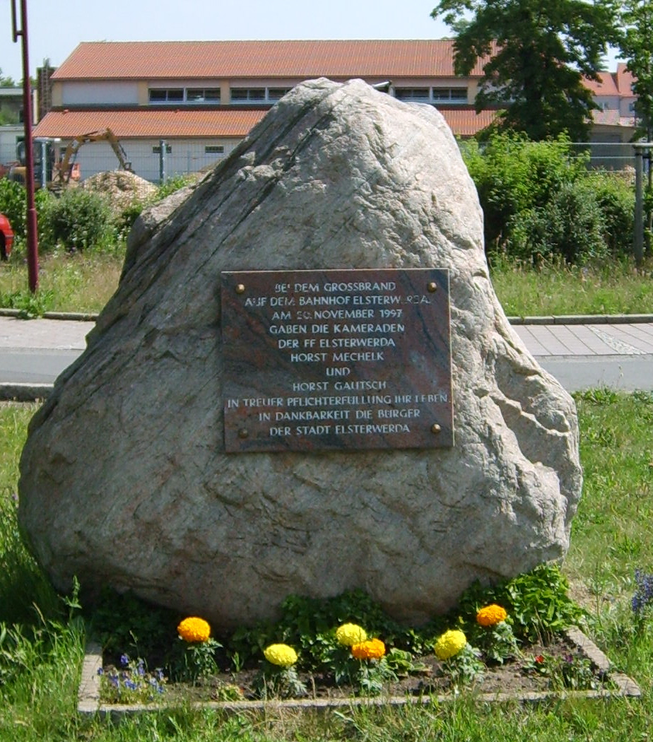 Memorial stone for the 1997 train catastrophy in Elsterwerda